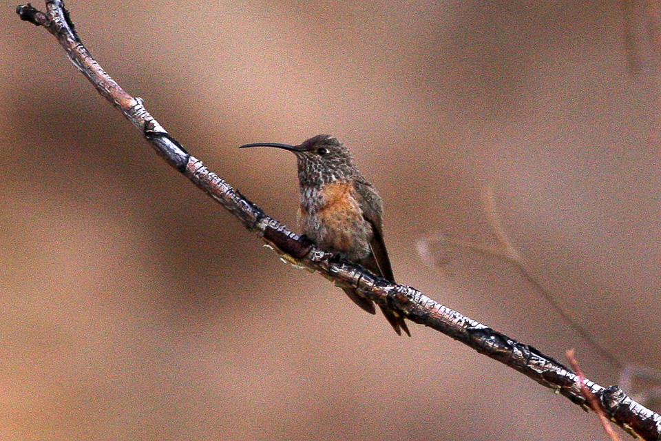 Wedge-tailed Hillstar (Oreotrochilus adela), Yavi to St Victoria to Yavi, Argentina